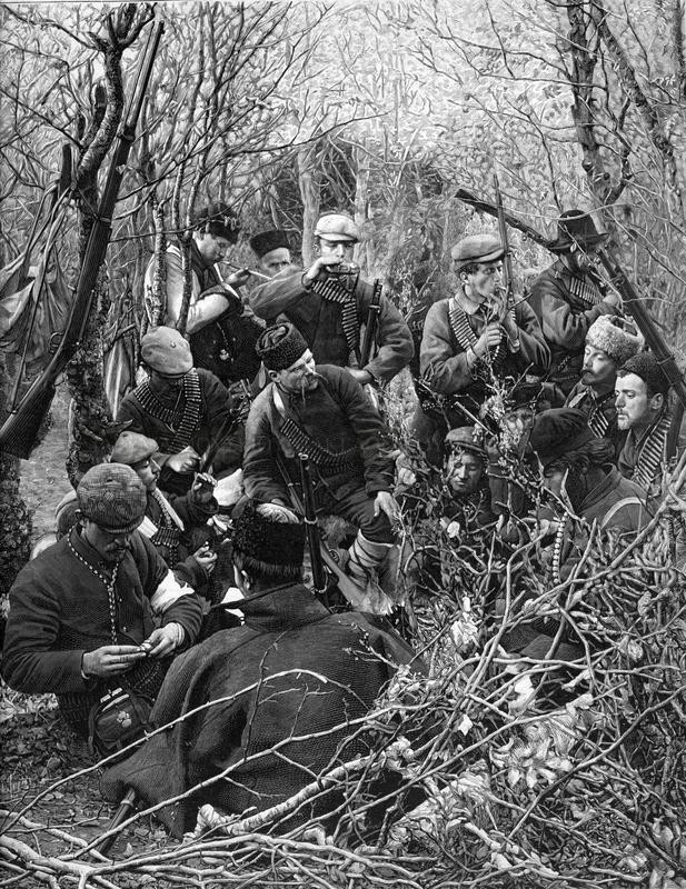 Bulgarian revolutionaries in Macedonia taking a rest